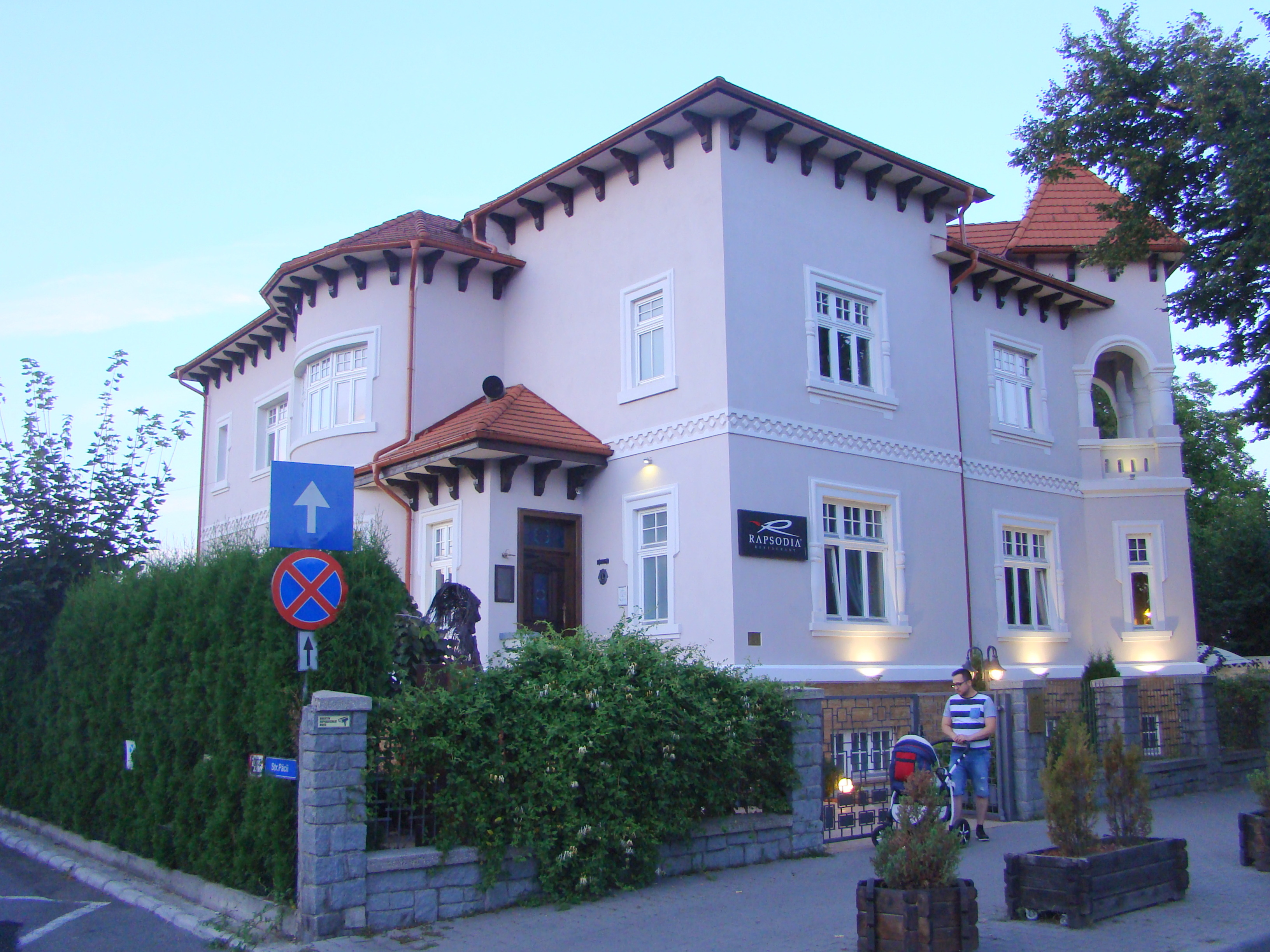 Rapsodia restaurant in Bistrița